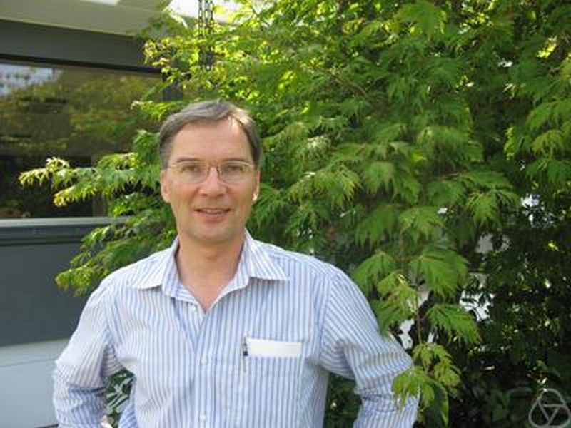 Uwe Jannsen, Oberwolfach 2009